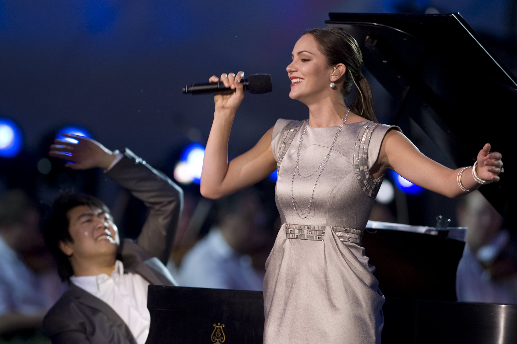 Singer Katherine McPhee and pianist Lang Lang perform at the National Memorial Day Concert in Washington, D.C., May 24, 2009.